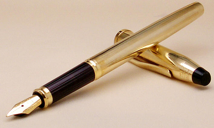 Cross Century II en or